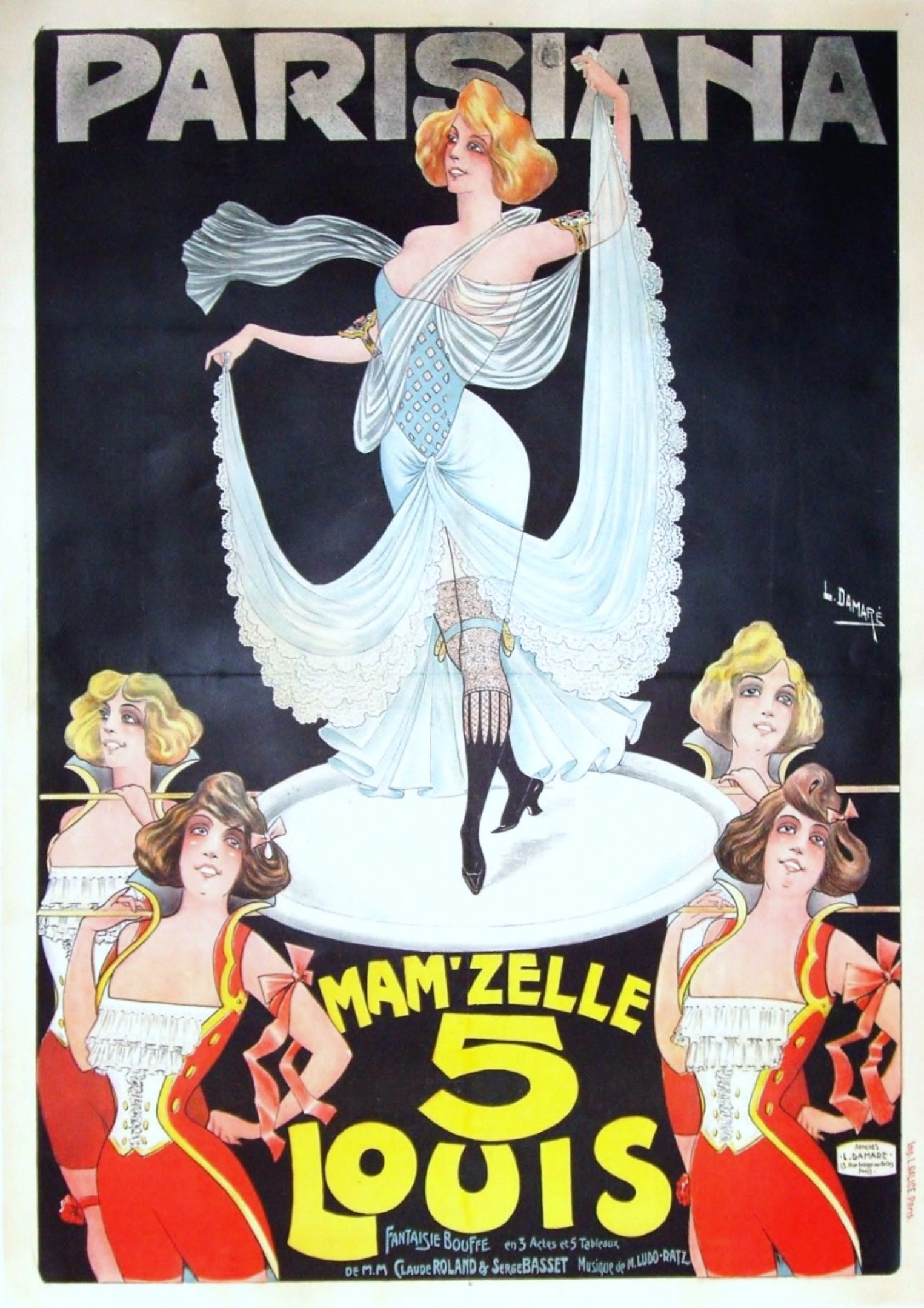 Amélie Diéterle plays the main role in, Mam'zelle 5 Louis, at the Parisiana cabaret in 1904, a fancy-operetta of Claude Roland and Serge Basset, on a music by Ludovic Ratz. Amélie Diéterle is a French actress born in Strasbourg on February 20, 1871 and died in Cannes on January 20, 1941. She was legitimated in Paris in 1892 by Captain Louis Laurent, Knight of the Legion of Honor. Amélie Diéterle married in Vallauris on June 16th, 1930 with André Simon (1877-1965). Amélie Diéterle plays mainly at the Théâtre des Variétés in Paris during the Belle Époque.